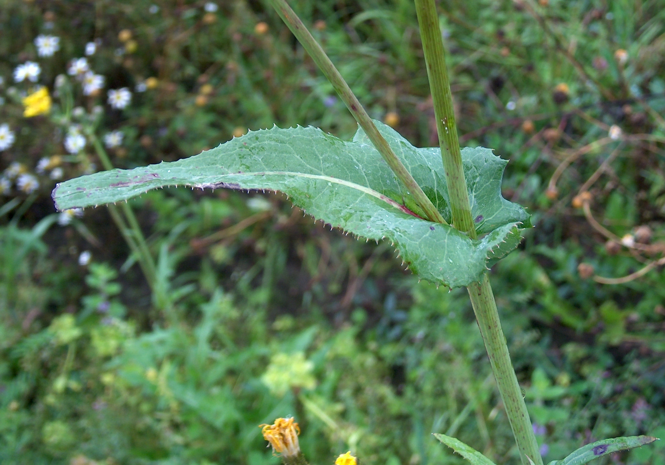 Sonchus arvensis, Field Sow Thistle - Leaf - Kerava, Finland